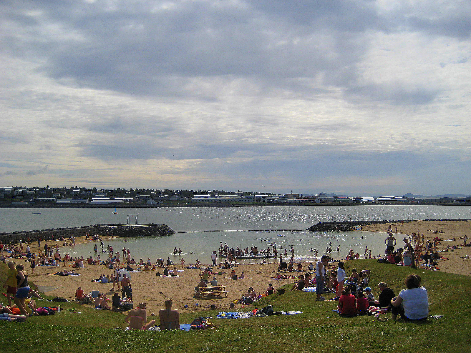 Farm Nautholl was built in 1850 and was burned in 1900 in the wake of the outbreak of typhus. Its ruins are still obvious to the north of the car park, near the airport fence. During World War II, the area around the cove was a major Allied Atlantic Base. A memorial to the Norwegian air force stationed there stands by the service centre. A brook with hot runoff water from the city central heating systems was a popular bathing spot until it was closed in 1985. The site was redeveloped with a service centre, sandy beach and a sheltered, heated lagoon, and opened in the year 2000. The water temperature of the lagoon usually is between 18-20°C, and 30-35°C in the hot pots. Walking and jogging paths stretch right along the shoreline, and into the wooded area of the Oskjuhlid Hillock. Cove Nautholsvik was awarded the Blue Flag Certificate. This award is granted beaches, which offer high quality environments. The Siglunes Sailing Club arranges pleasure cruises on the bay. Rowing boats, canoes, and small sail boats can be rented on Thursdays during summer. Nautholl is a licensed restaurant offering a wide menu. It is open all year round. Snacks are on sale in the service centre.